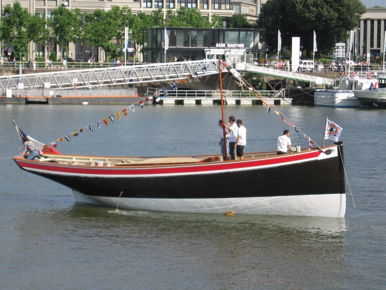 Saint Michel II, replica of Jules Verne's second yacht. Picture taken at the inauguration.